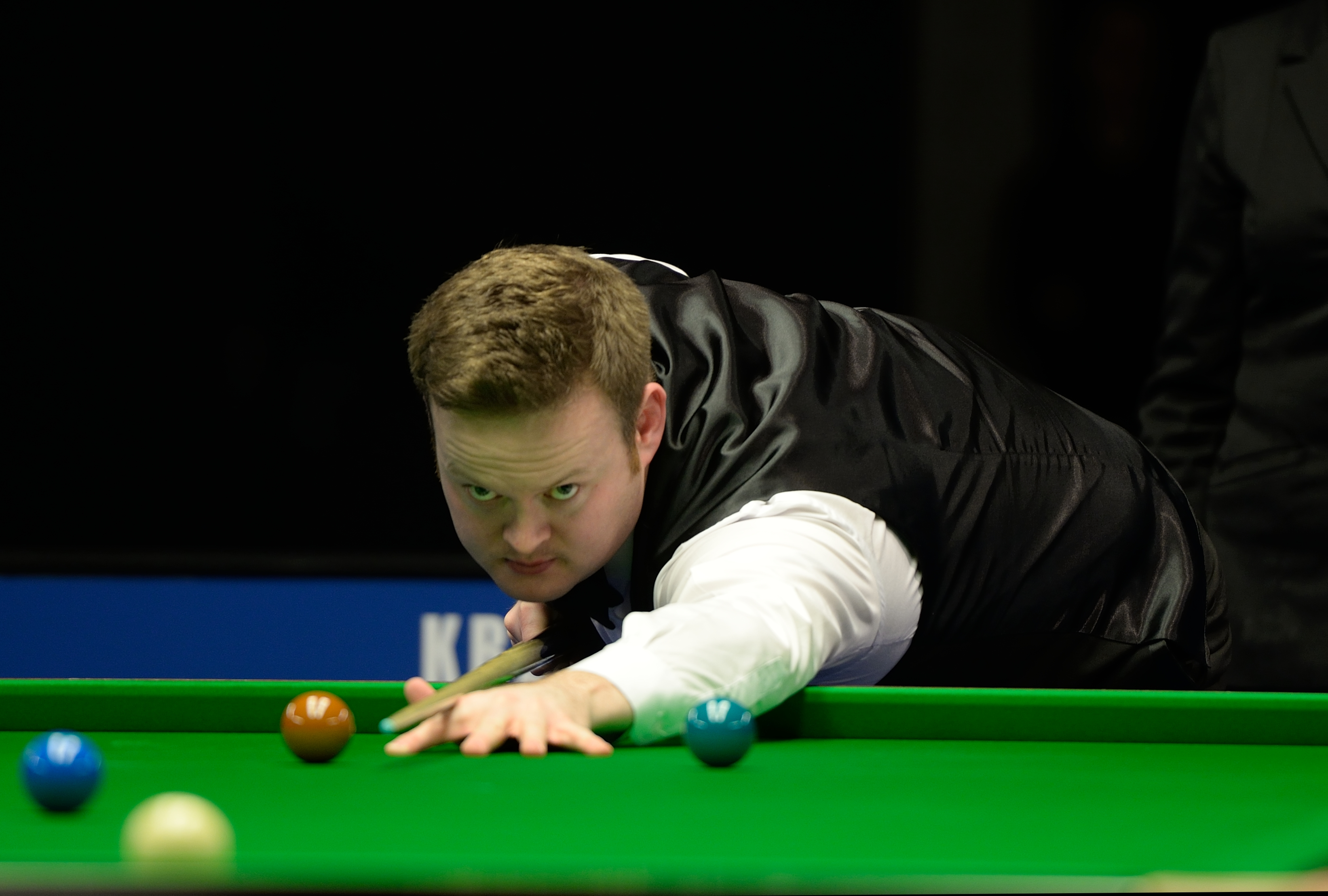 Picture taken in Berlin during the Snooker German Masters in 2015. Shaun Murphy.